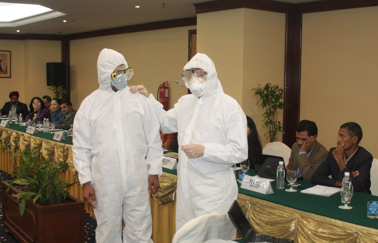 Asiavision safety training, April 2011